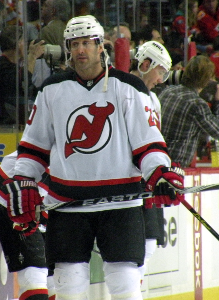 New Jersey Devils forward Jay Pandolfo prior to a National Hockey League game against the Calgary Flames.